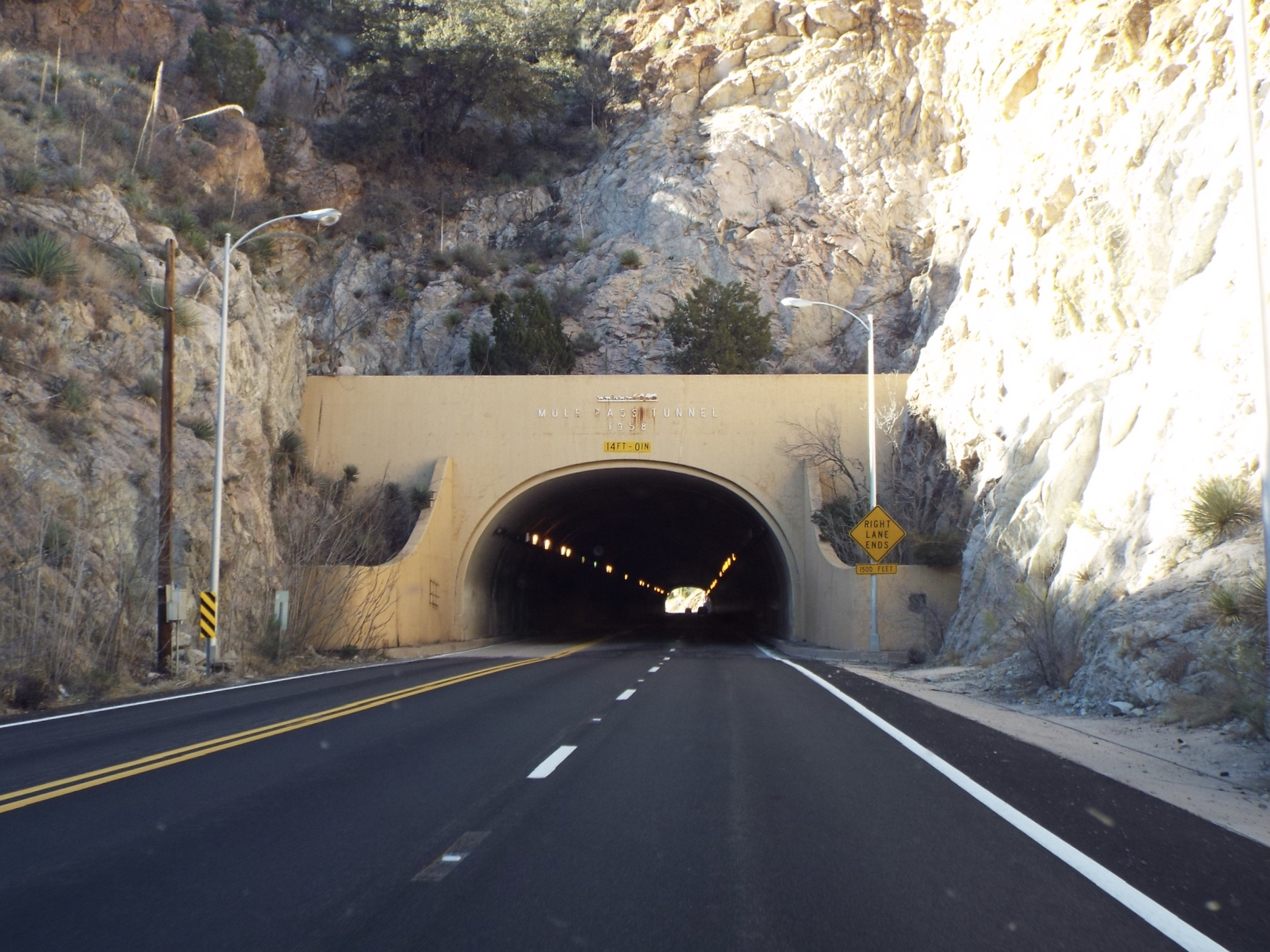 The Mule Pass Tunnel was built in 1958 and is located on SR 80 in Cochise County in Bisbee, AZ. The tunnel is 1,400 ft. long.